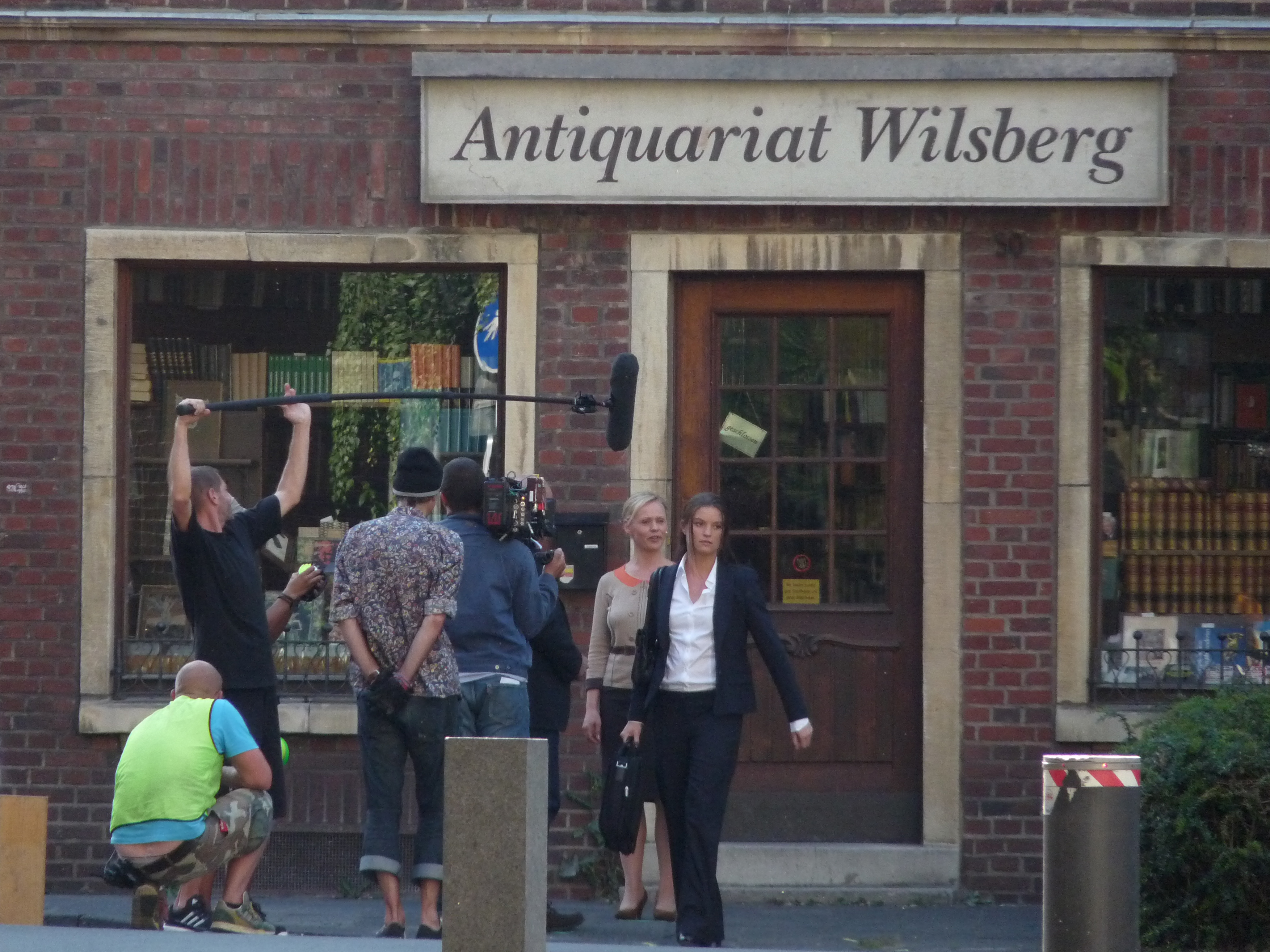 shooting of episode Hengstparade of TV series Wilsberg with Leonard Lansink, Ina Paule Klink and Beate Prahl